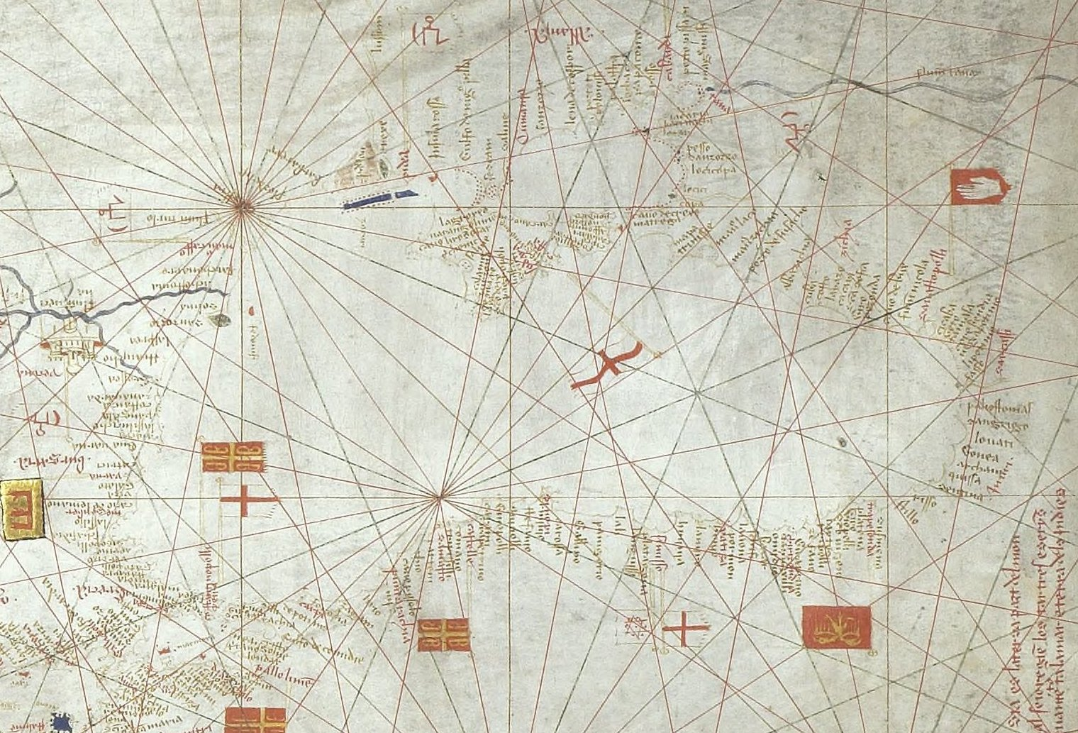 Portolan chart signed by Majorcan cartographer Guillem Soler (Guillelmus Soleri, Guglielmo Soleri) but undated (est. c.1380, but could be anywhere between 1368 and 1385), held by the Bibliothèque nationale de France in Paris, France. (Bibliothèque nationale de France)